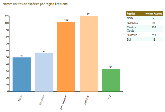 Figura 1: Nomes (quantidade de espécies) reconhecidas por região brasileira da família Lythraceae.